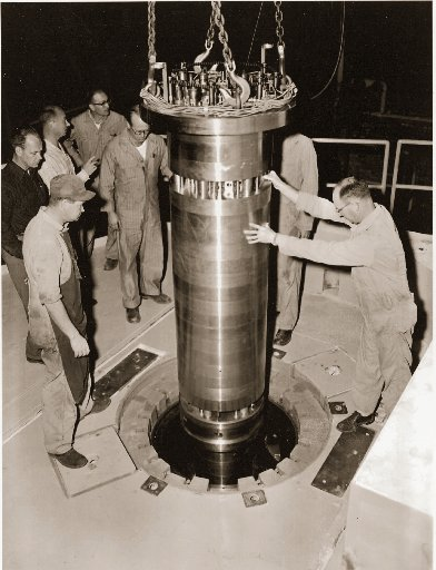 Experimental Breeder Reactor I. Installation of the reactor vessel.